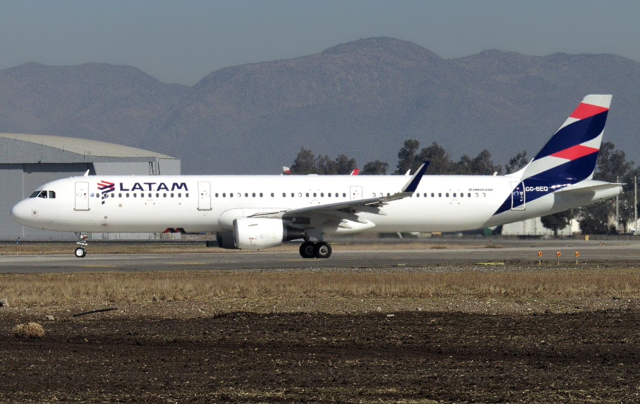 The A321 has become an icon since it's delivery in 2014 in short to medium haul routes, mostly domestic.